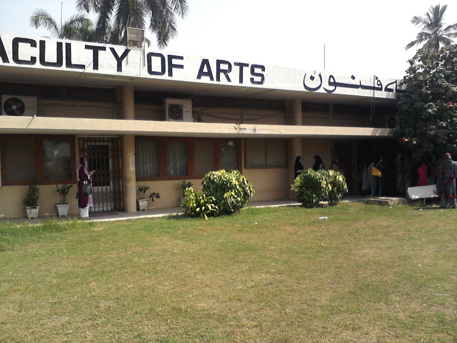 Offices of the Faculty of Arts, Karachi University.